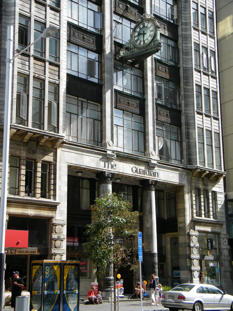 Photo of Guardian Building, Auckland. Author: Flickr user "zayzayem"